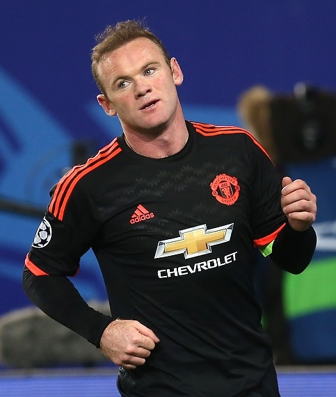 Wayne Rooney during UEFA Champions League match against PFC CSKA Moscow